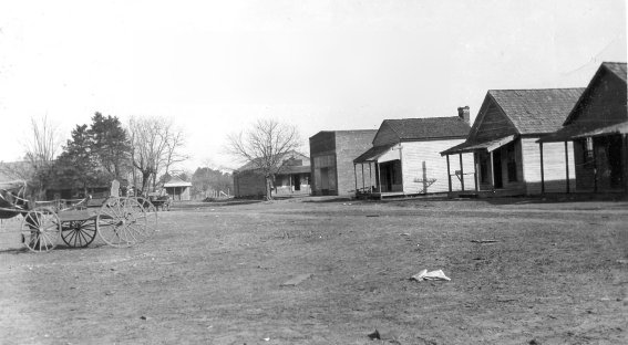 Fulton, Mississippi, United States - c. 1890s.